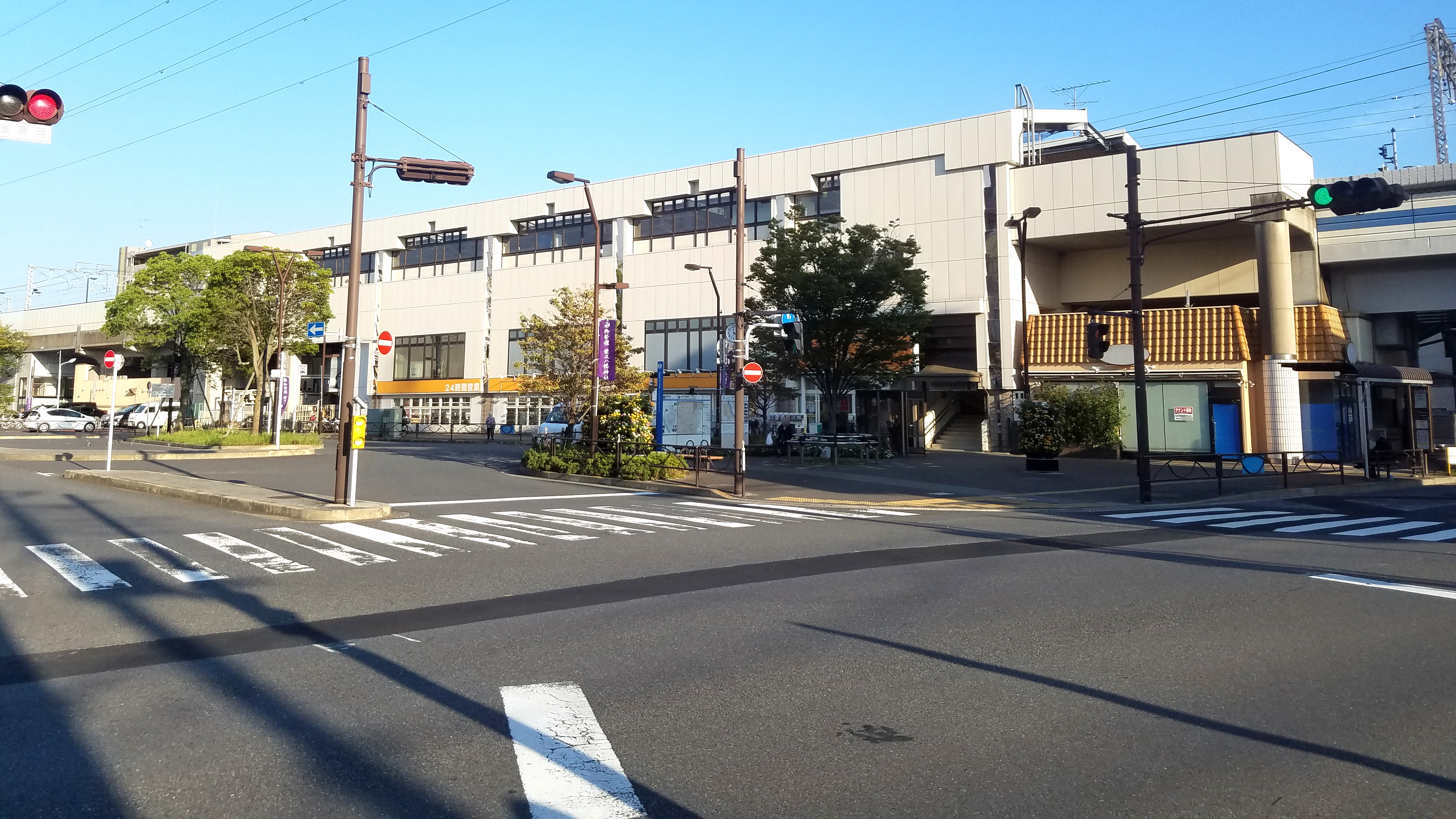 The building of Shin-Shibamata Station on the Hokusō Railway in Katsushika city, Tokyo, Japan